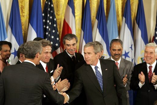 President George W. Bush shakes hands with legislators, administration officials and guests, Tuesday, August 2, 2005 in the East room of the White House, after the signing ceremony for the CAFTA Implementation Act.